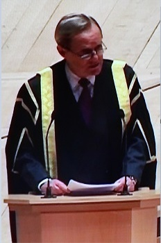 Charles Wellesley, Marquess of Douro, Chairman of the Council of King's College London at the Royal Festival Hall, London Accuracy dispute: see Talk page